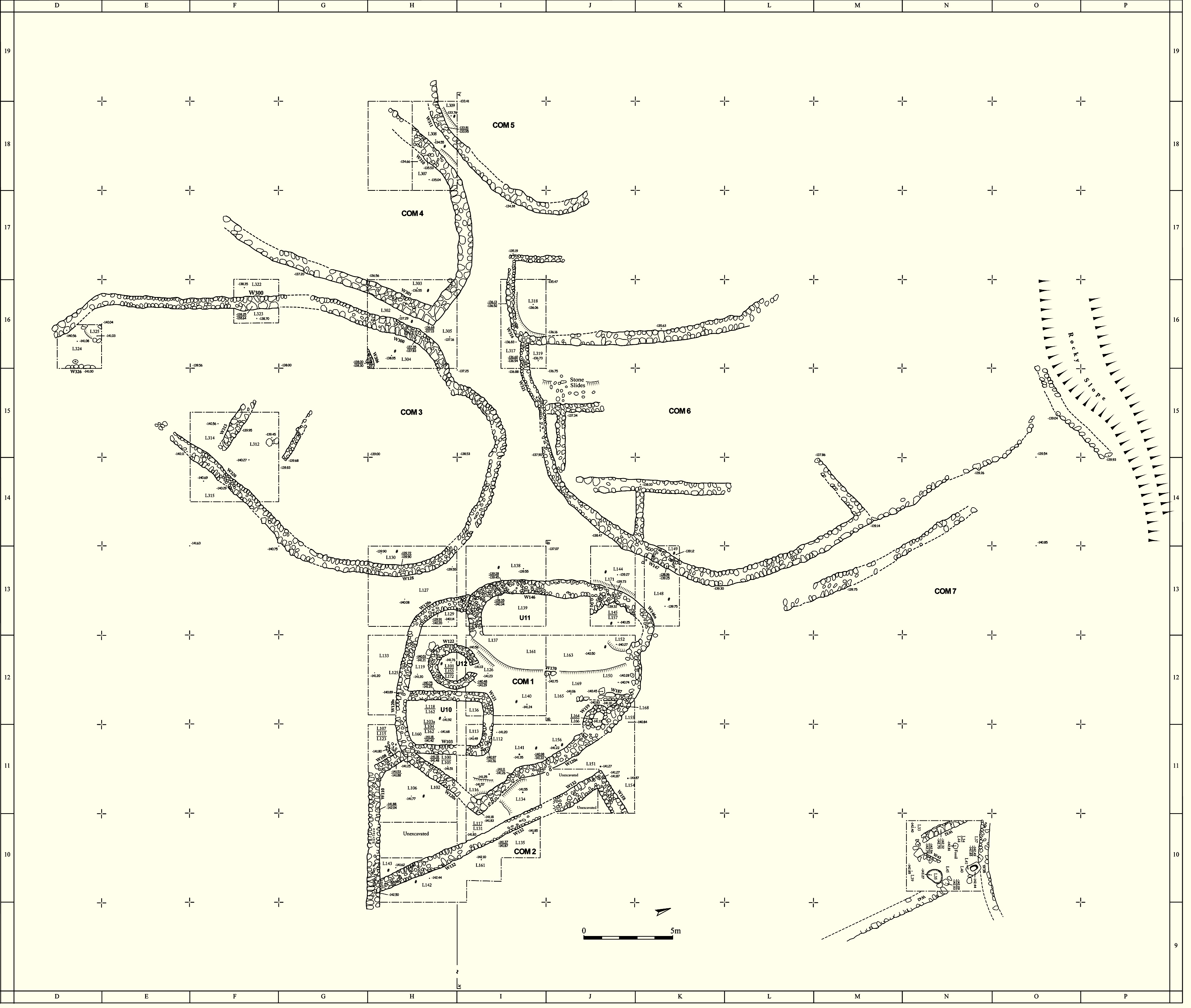 Sheikh Diab 2- Early Bronze Age 1 Archaeological site in Jordan Valley שייח' דיאב 2 - אתר ארכאולוגי מתקופת הברונזה הקדומה 1 - האתר שוכן בבקעת הירדן ליד היישוב פצאל This work is free and may be used by anyone for any purpose. If you wish to use this content, you do not need to request permission as long as you follow any licensing requirements mentioned on this page.